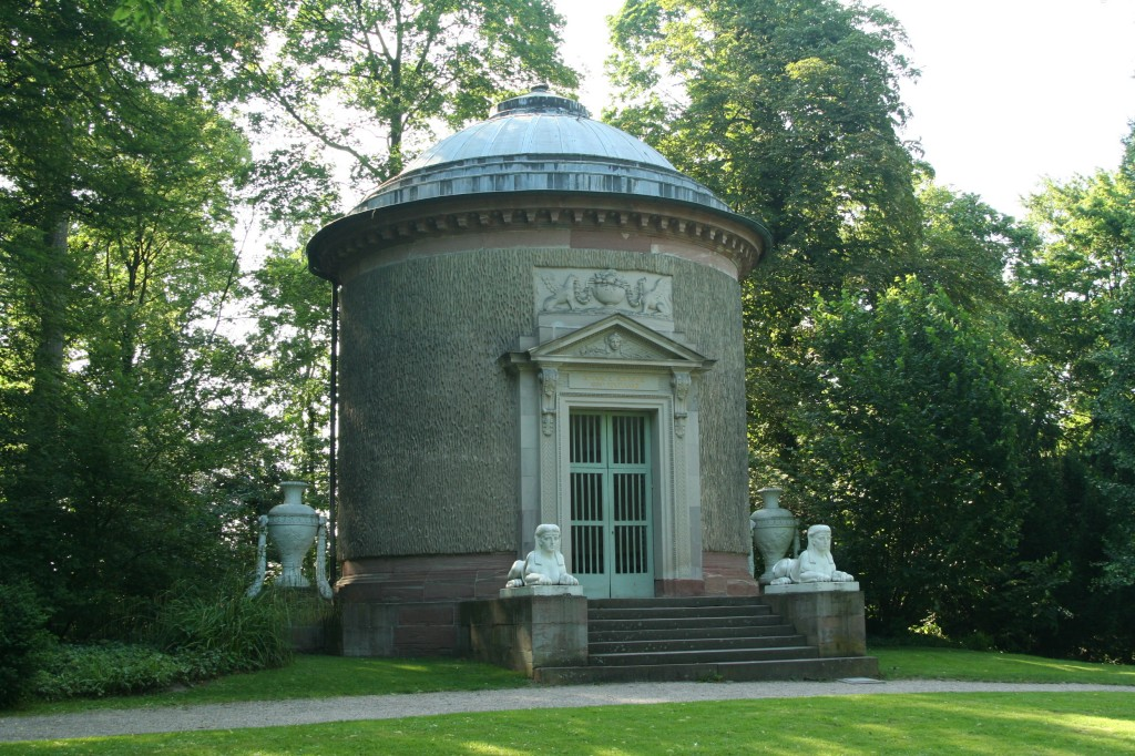 Temple of Botany, Schwetzingen Palace Gardens, Germany